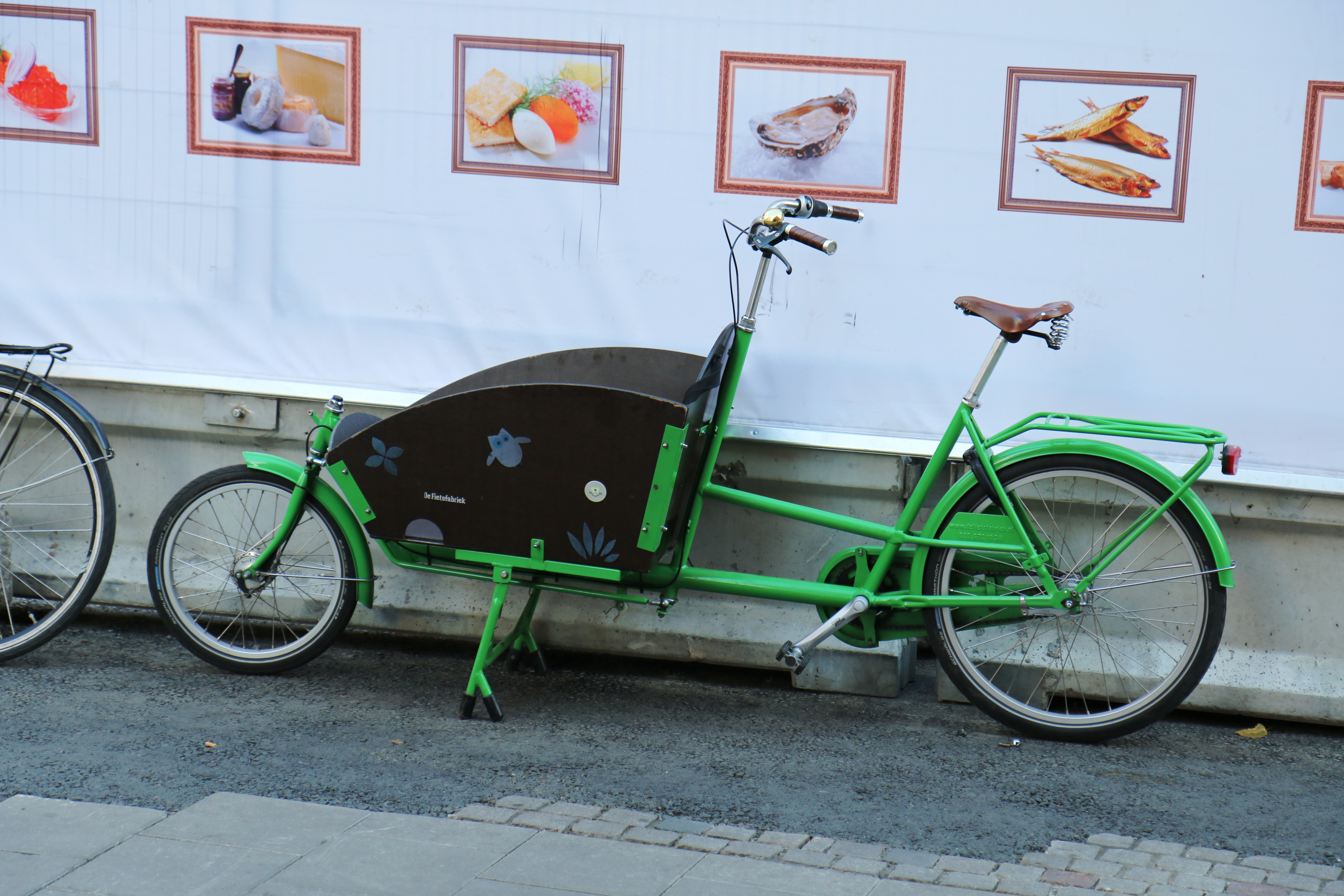 Green transporter bike.